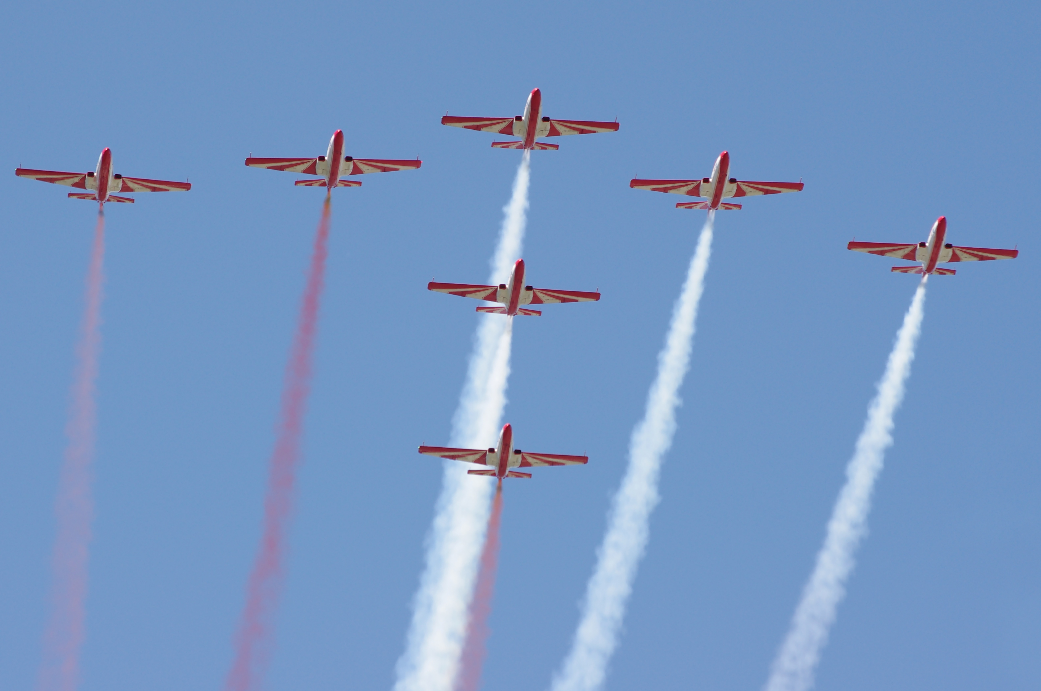 Biało-Czerwone Iskry aerobatic team at Aircraft Picnic in Kraków